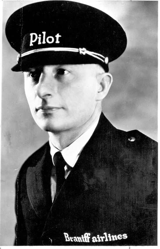 1929 Braniff file photo of Paul Revere Braniff, Inc. founder Paul Revere Braniff wearing his Braniff pilot uniform.